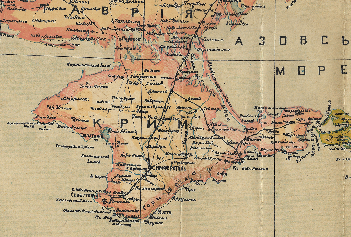 A fragment of "Map of Ukraine" by Stephan Rudnytsky. It depicts Crimea and Ukrainians in Crimea (in yellow).